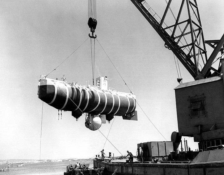 US Navy Bathyscaphe Trieste (1958 – 1963) is hoisted from the water by a floating crane, during testing by the Naval Electronics Laboratory in the San Diego, California, area. Trieste was being prepared for transportation to the Marianas Islands for a three-month series of deep-submergence operations. On 2 October 1959, she was loaded on the frieghter Santa Maria for the trip to the mid-Pacific. U.S. Naval History and Heritage Command Photograph.